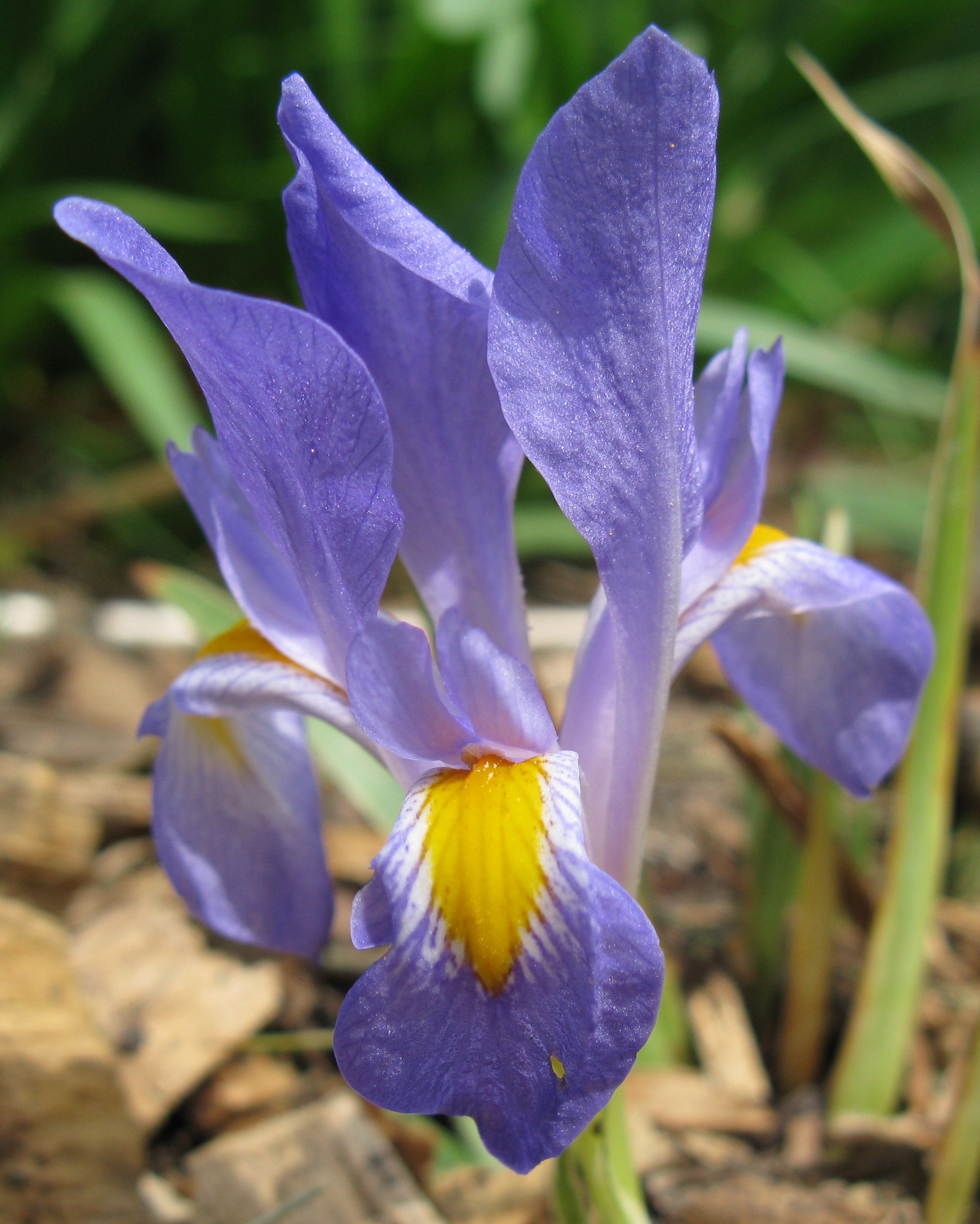 Iris verna, a rare native in Pennsylvania. Mine is 3 inches tall.